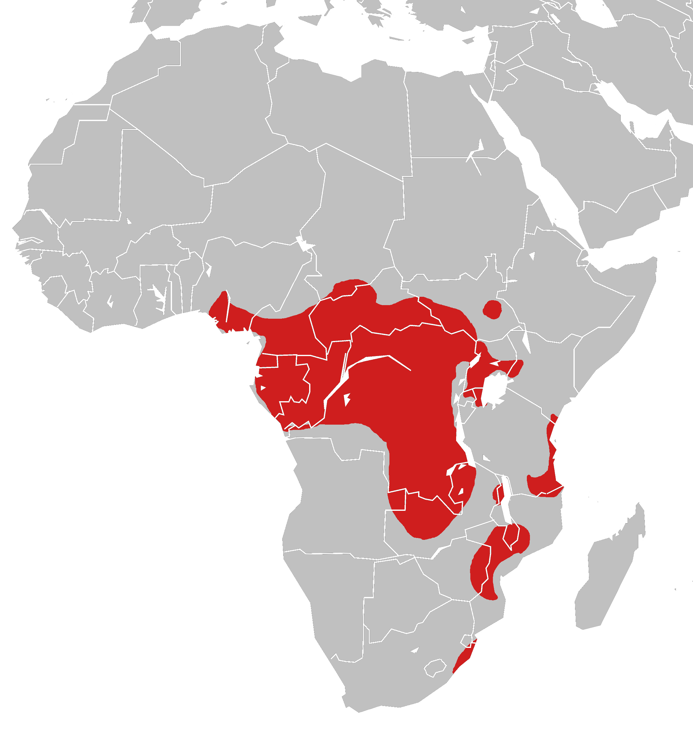 Distribution of Bitis gabonica based on [1].